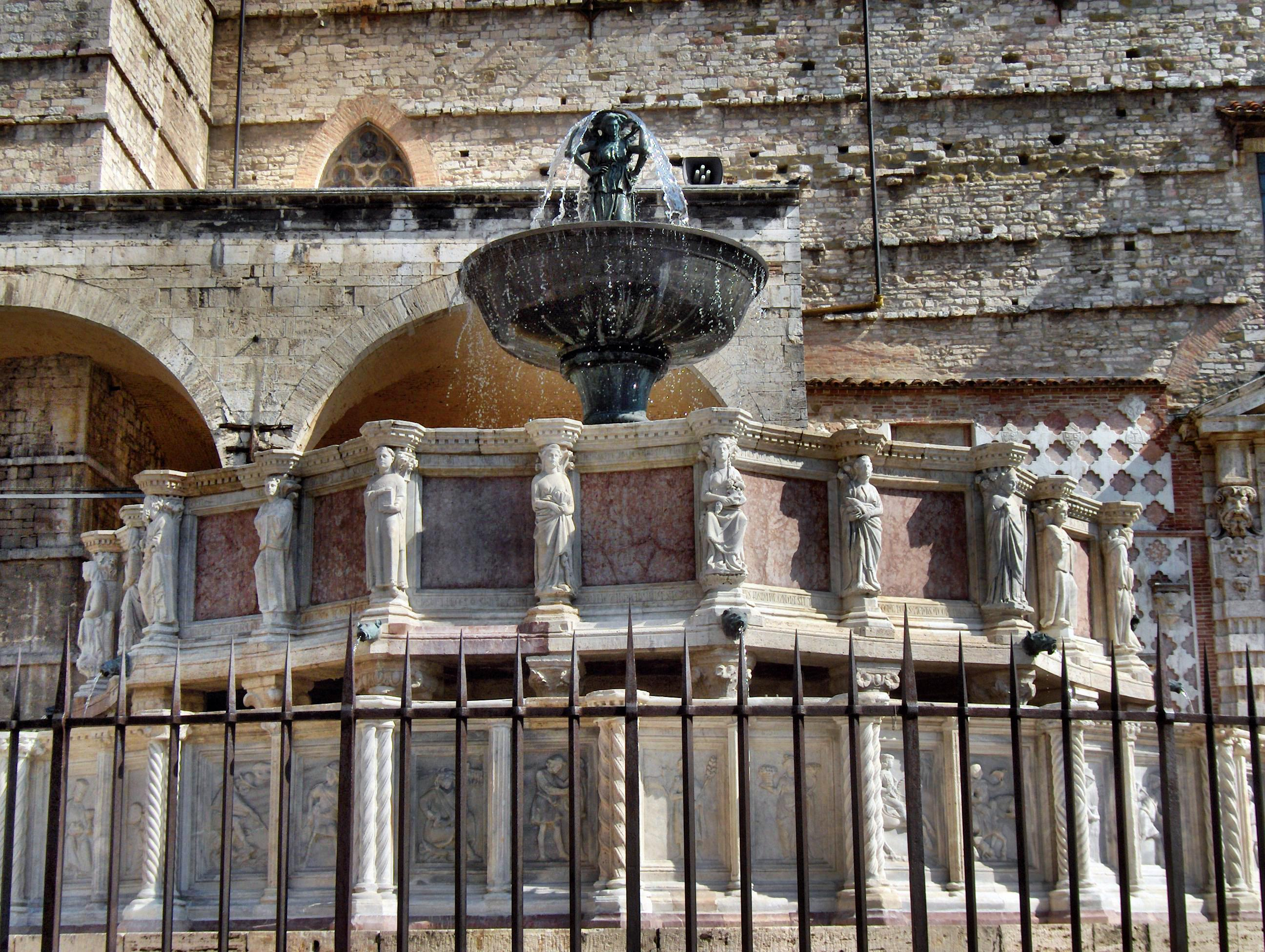 Fontana Maggiore, Perugia, Italy